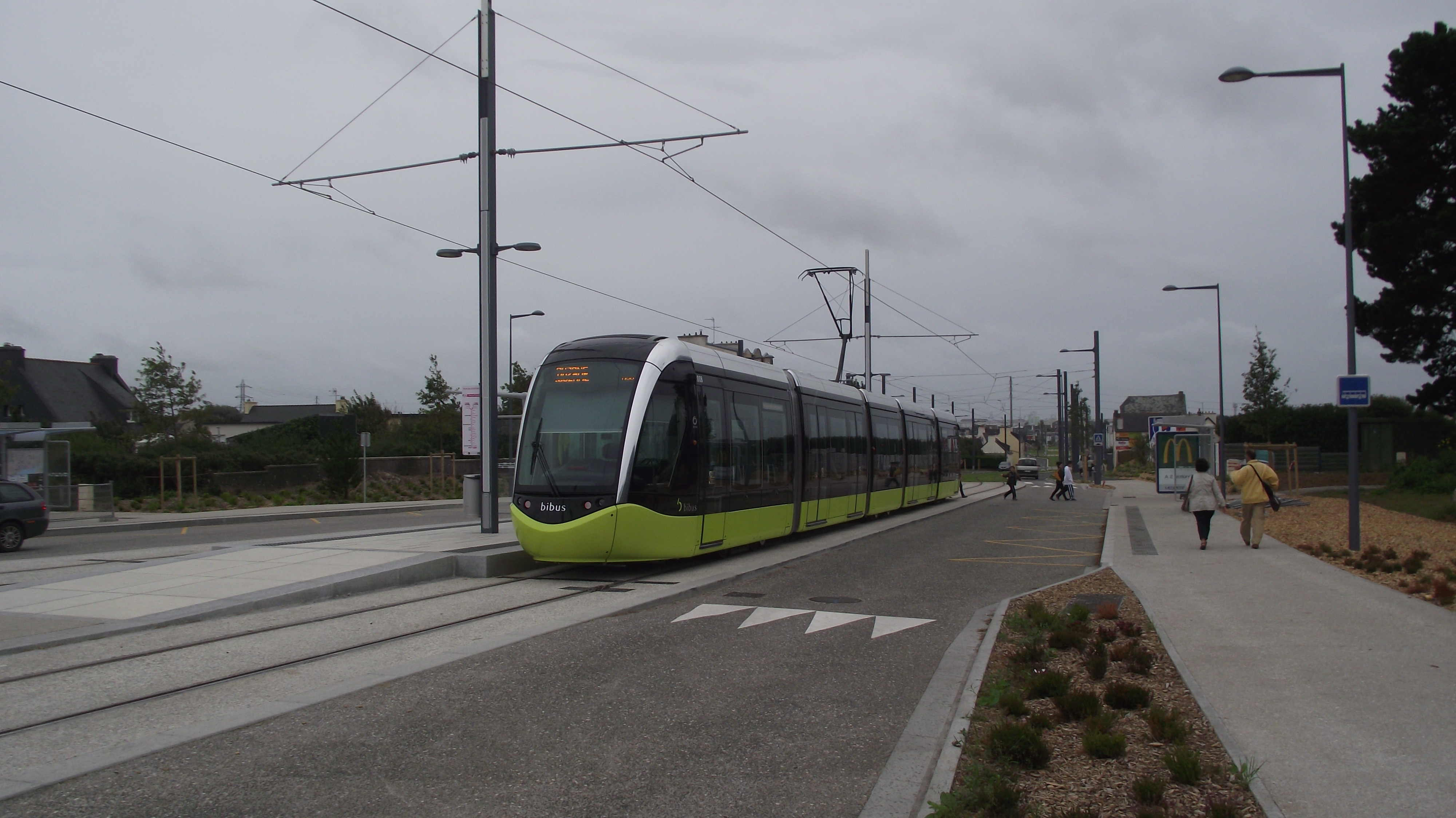 Tram endpoint Porte de Gouesnou in Brest